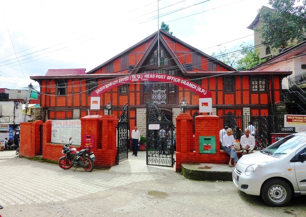 Itook this photo on a tripto India in 2010